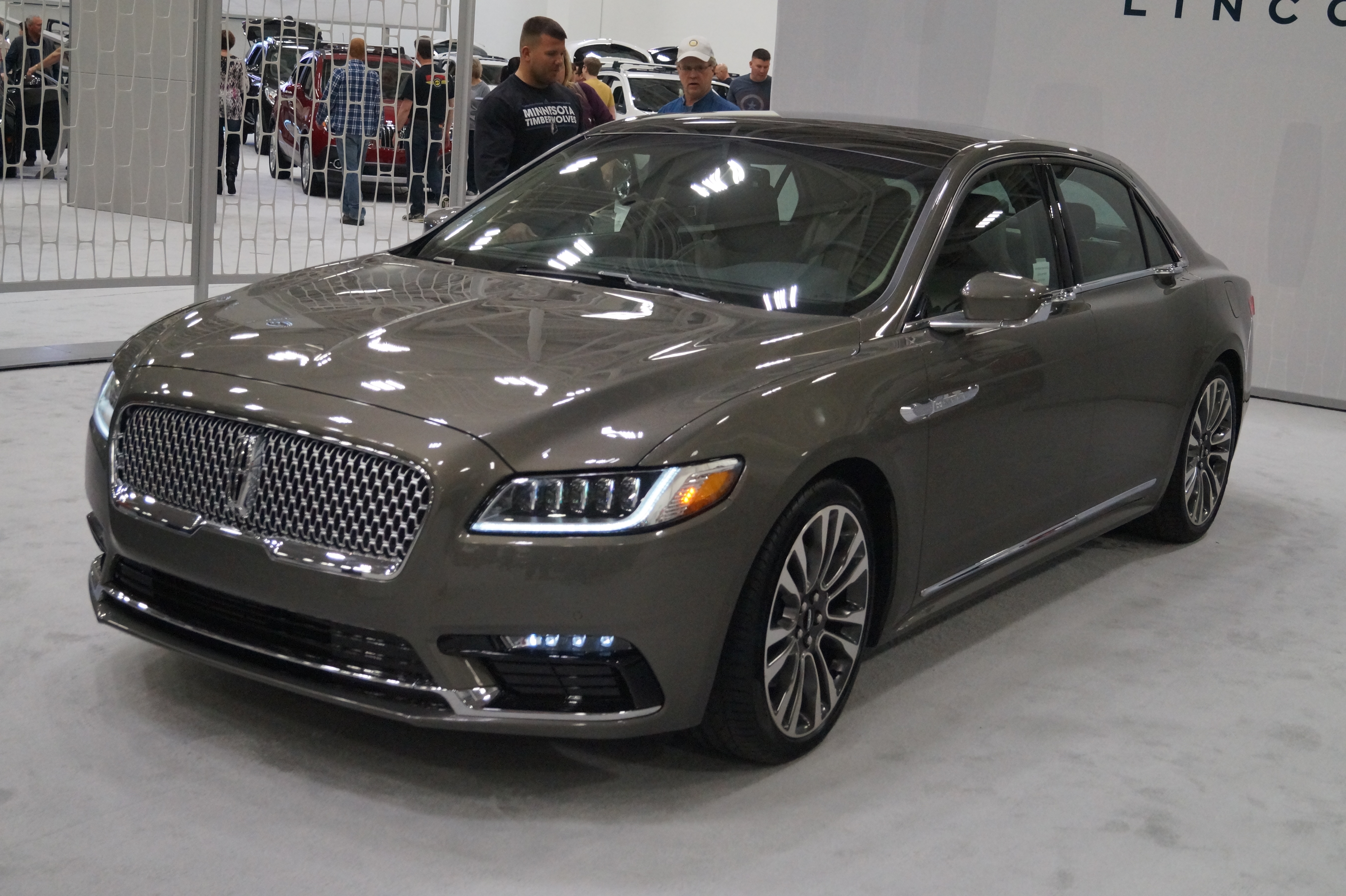 43rd Annual Twin Cities Auto Show Your License to Dream Presented by SA SuperAmerica Minneapolis Convention Center March 12-20, 2016 Click here for more car pictures at my Flickr site.